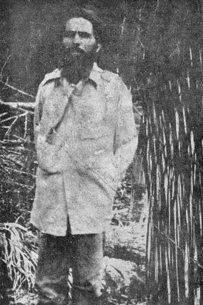 Luis Carlos Prestes in Bolivia in 1928, shortly after concluding the Prestes Column’s 3-year march throughout Brazil’s interior.